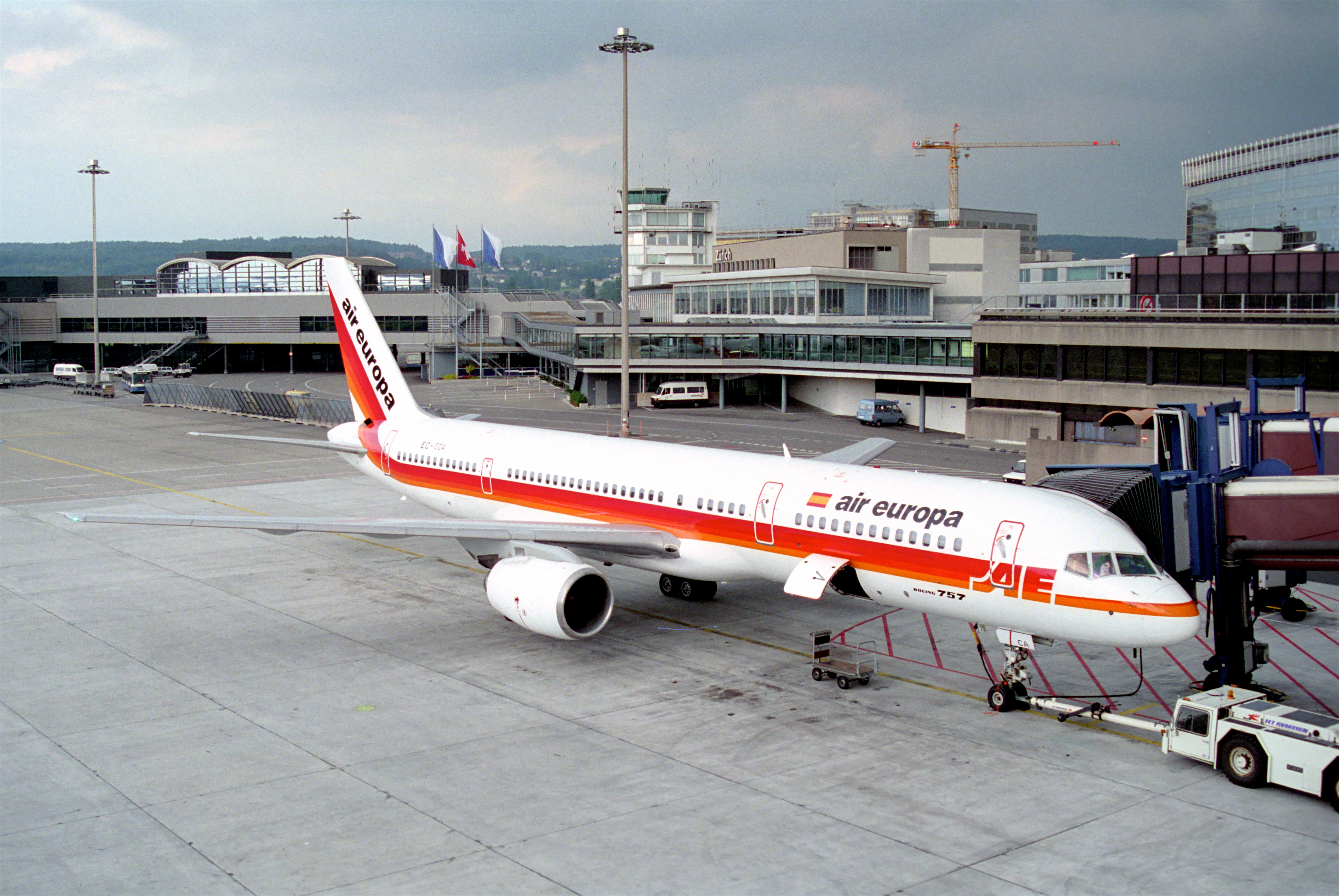 First flight: March 14, 1984...(c/n 22185/ 34) 27/03/1984 Air Europe G-BPGW 04/04/1989 Air Europa EC-265 24/05/1989 Air Europa EC-EOK 26/03/1990 Air Europe G-BPGW 01/11/1990 Avensa YV-78C 01/06/1994 Servivensa YV-78C 23/09/1994 American Express Bank N270AE 14/06/1995 Air Europa EC-845 03/08/1995 Air Europa EC-GCA 19/10/1997 Iberia EC-GCA 31/05/2001 Avianca N951PG returned to lessor - stored at Goodyear 11/07/03 23/07/2004 Orient Thai Airlines HS-OTB stored 04/2006